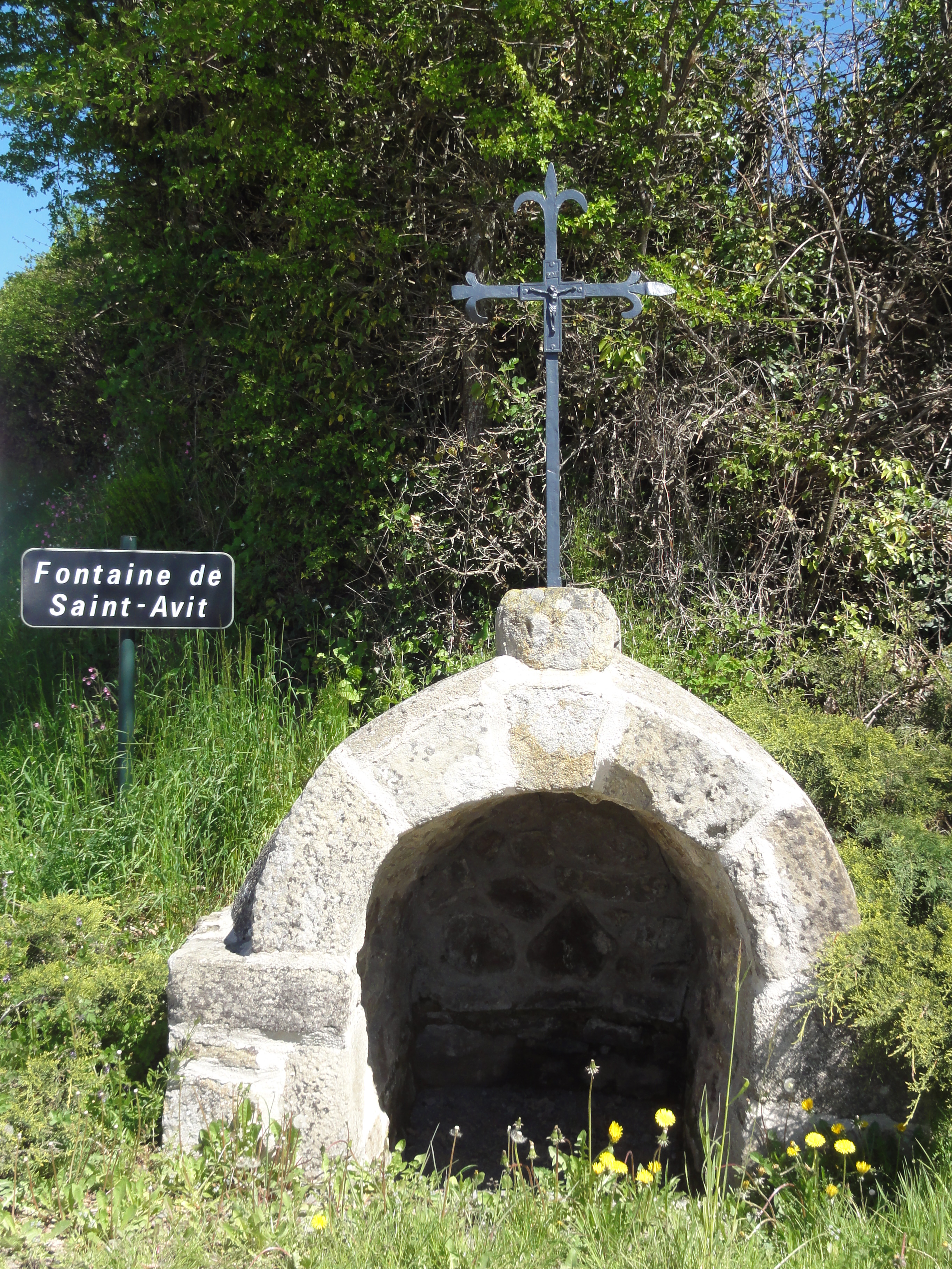 La Cellette (Puy-de-Dôme) fontaine de St.Avit